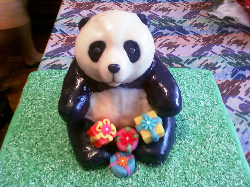 Image of cake, Gaga, Serbia